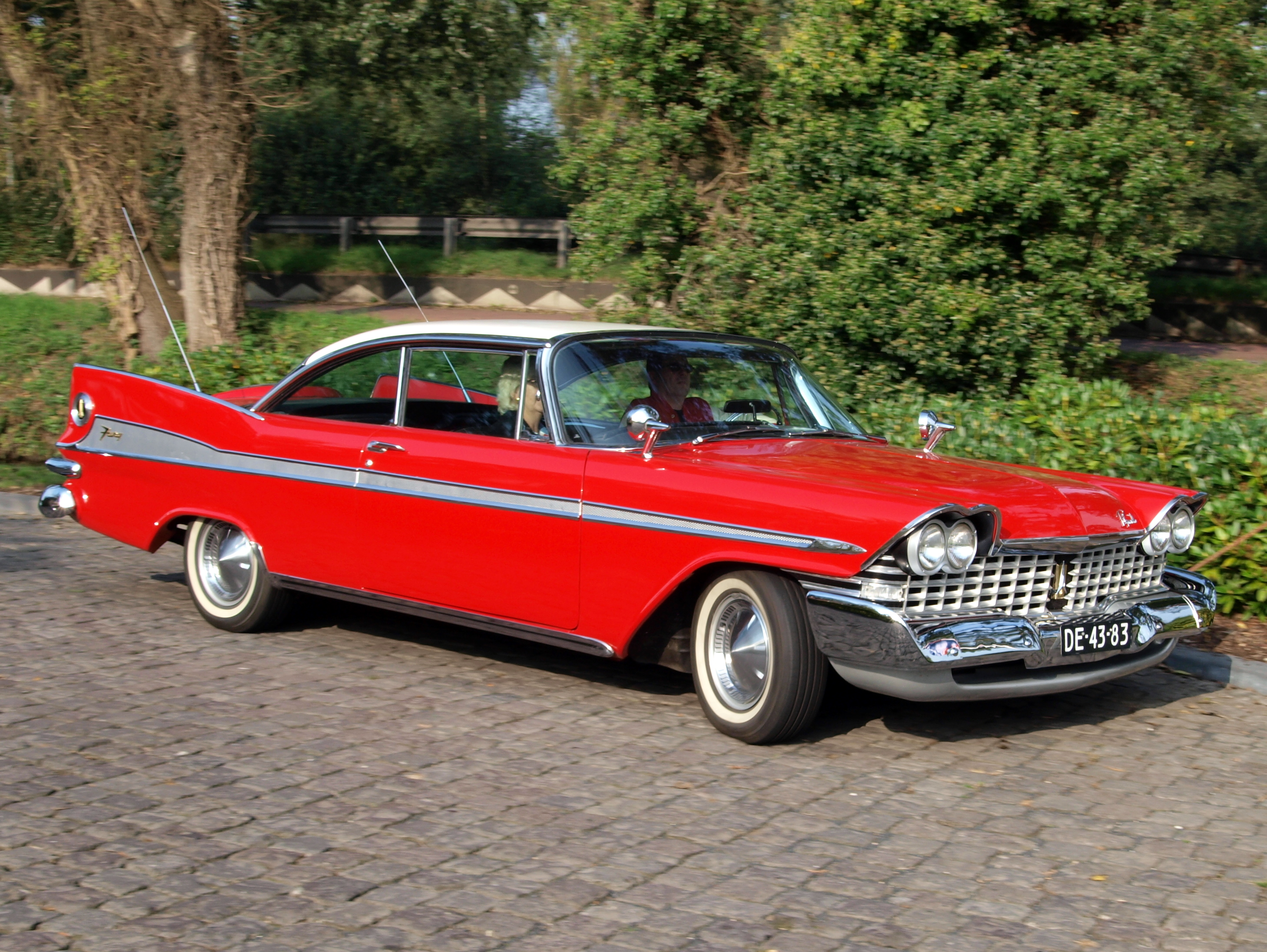 Photographed at the premmesis of the Louwman museum, The Hague, The Netherlands. OLYMPUS DIGITAL CAMERA